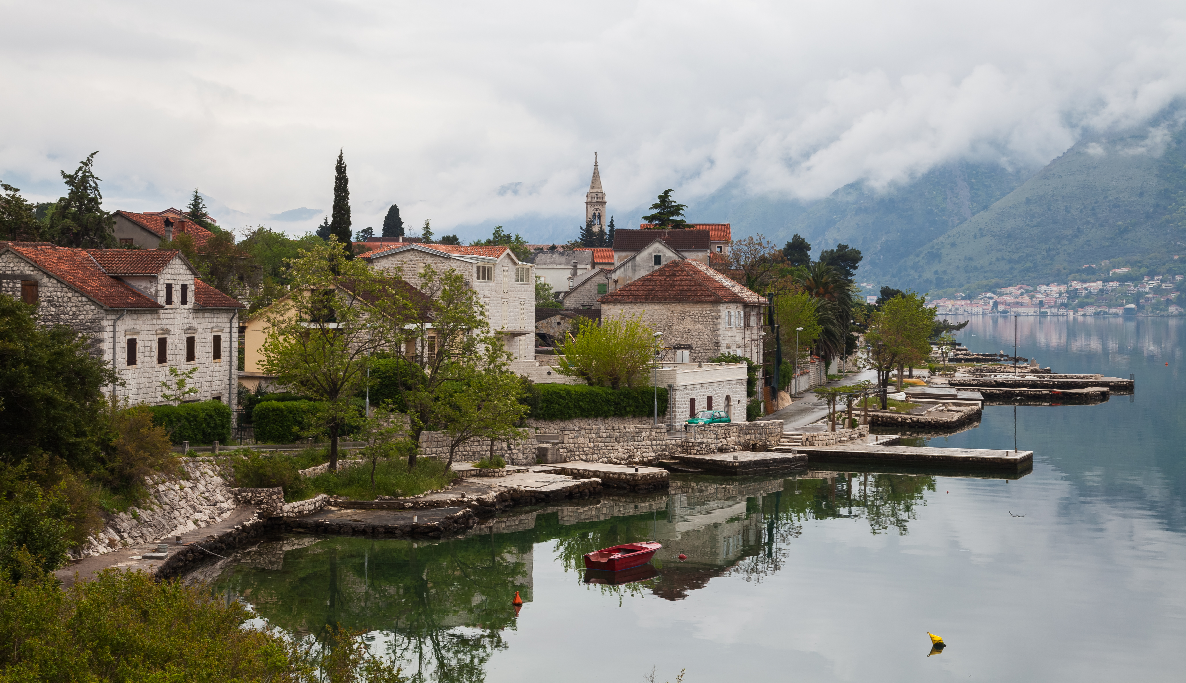 Dobrota, Bay of Kotor, Montenegro